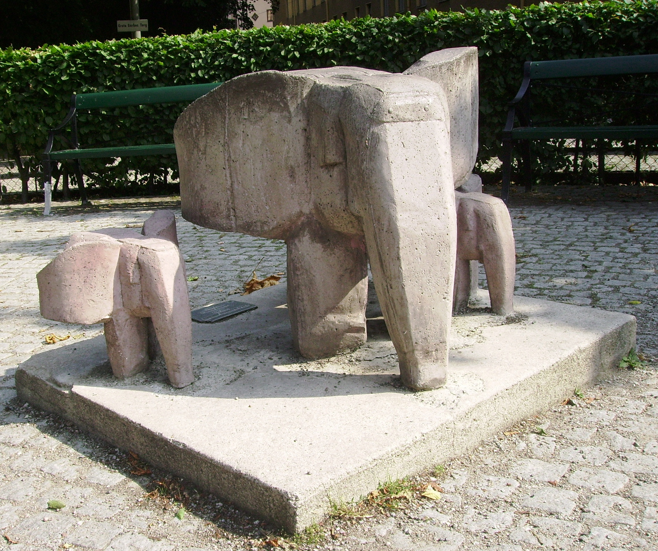 Picture of monument Lilla elefanten drömmer. Made by Torsten Renqvist.